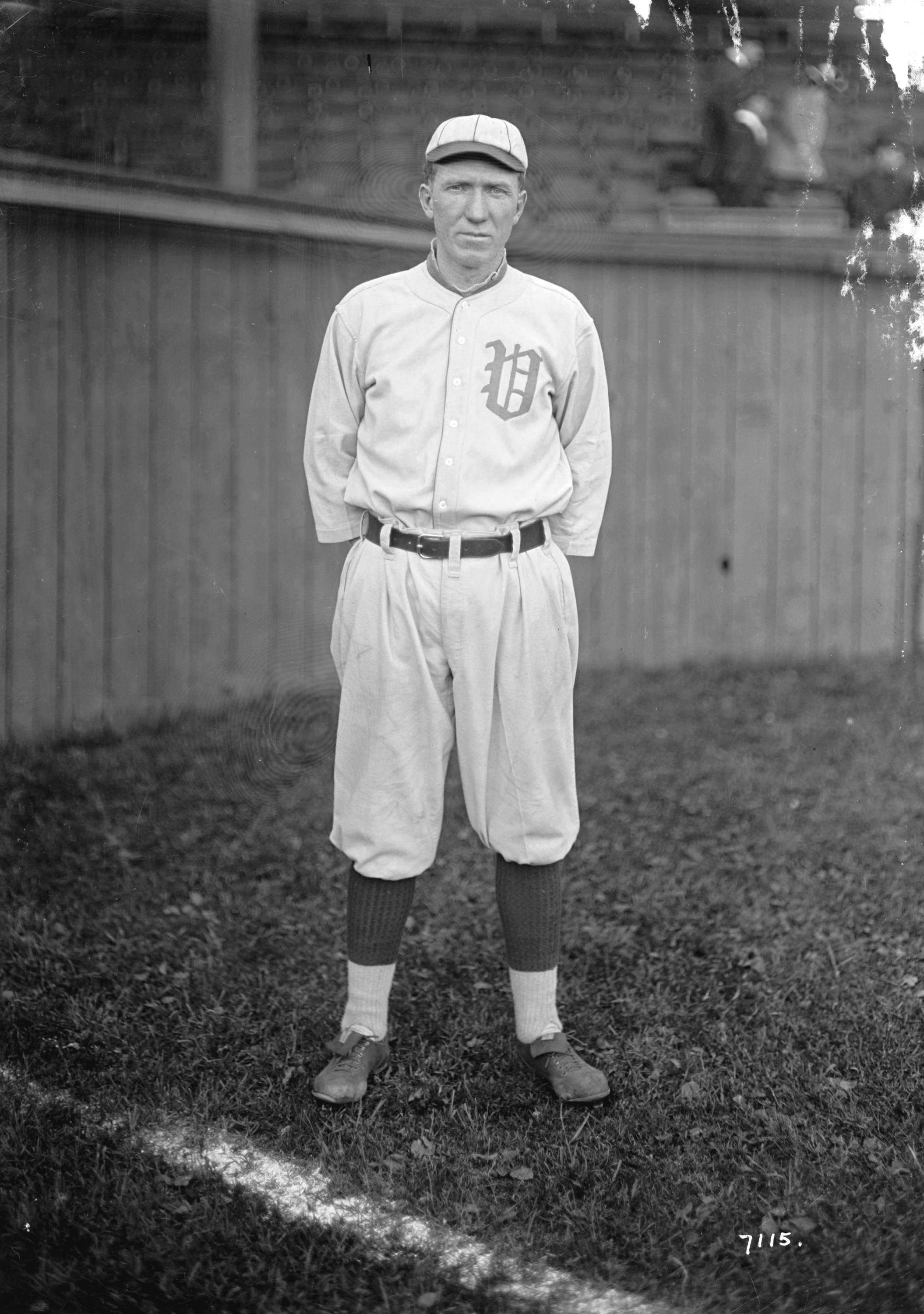 Item is a photograph, a portrait of Bob Brown, manager of the Vancouver Beavers.